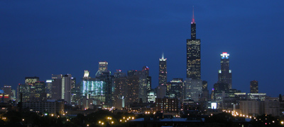 Chicago at night from a rooftop of a parking garage near the United Center. I, Brett Gustafson, took this photo myself. If you copy, distribute, make derivative works or make commercial use of the work you must attribute the photo to "Brett Gustafson".